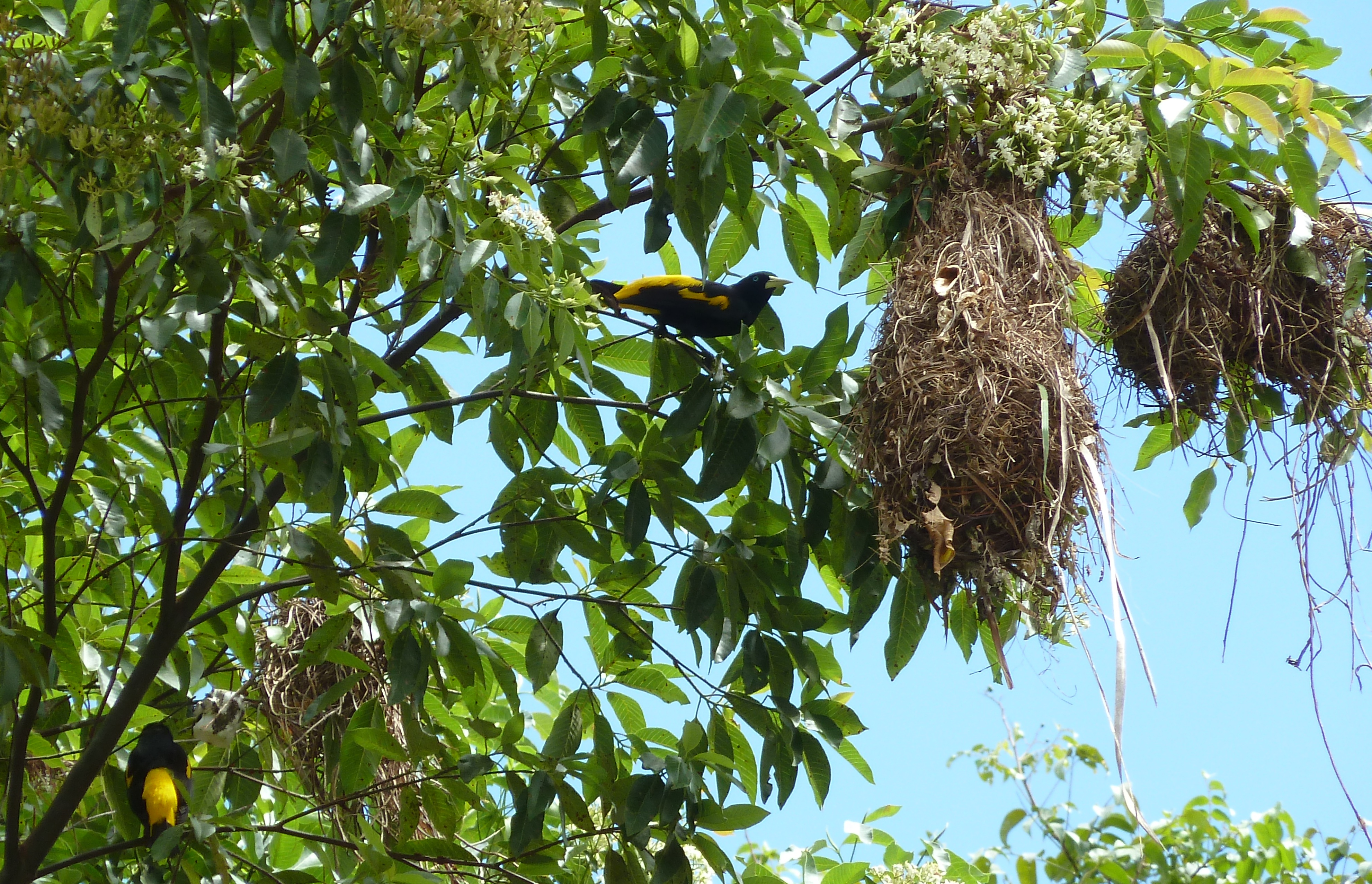 Cacicus cela (Yellow-rumped Cacique) with nest, Amazon Rainforest, near Nauta, Peru, 2011